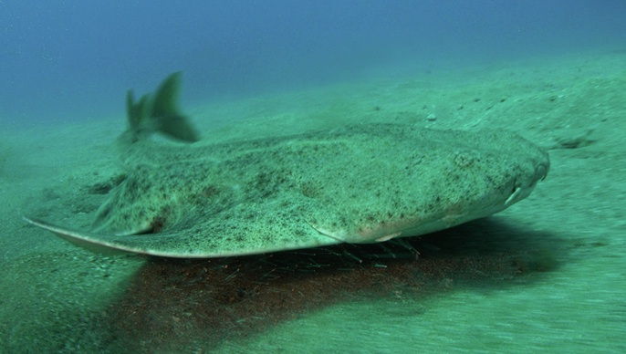 Angelshark (Squatina squatina) off Tenerife, Canary Islands